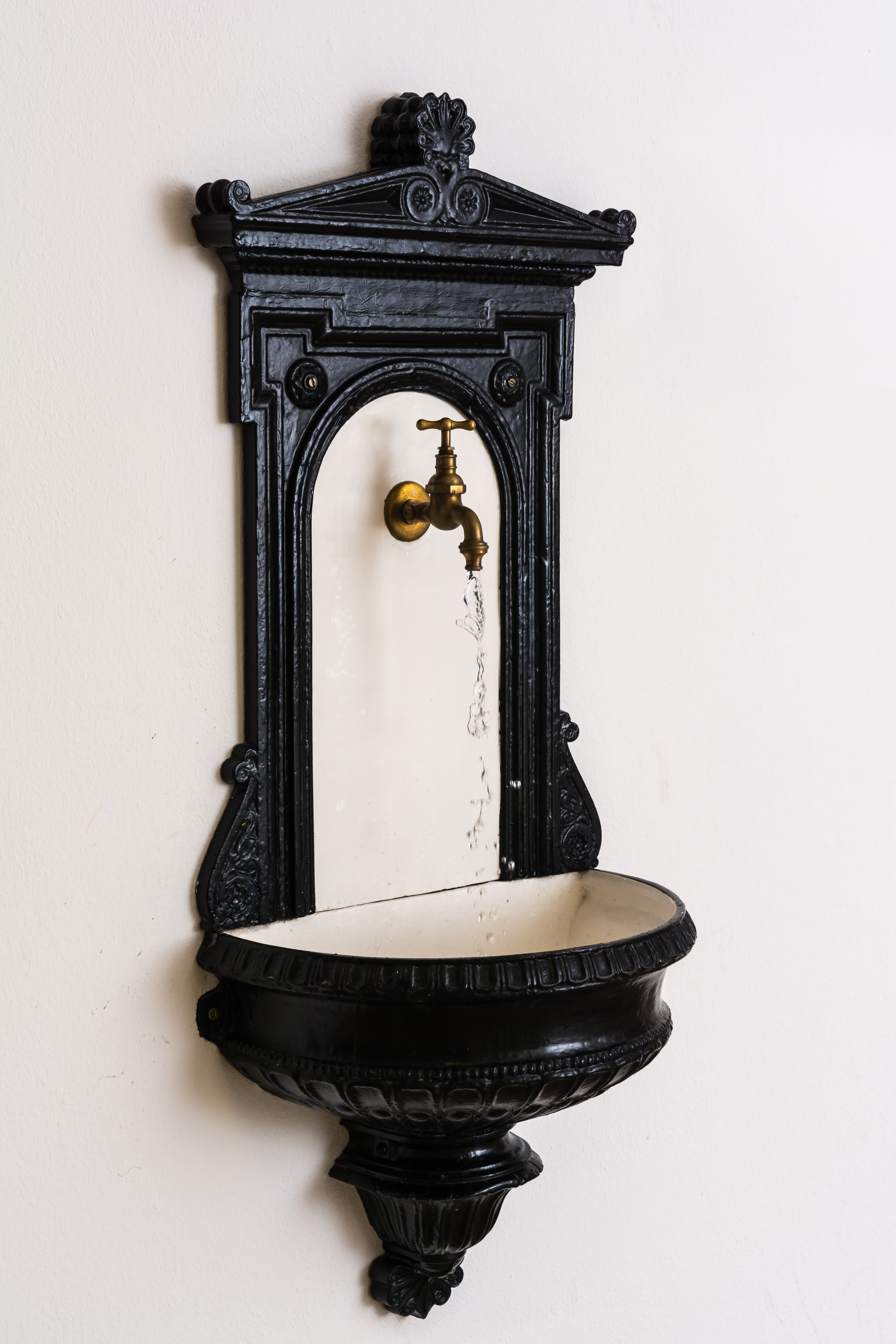 A Bassena at Melk Abbey's gymnasium, Lower Austria